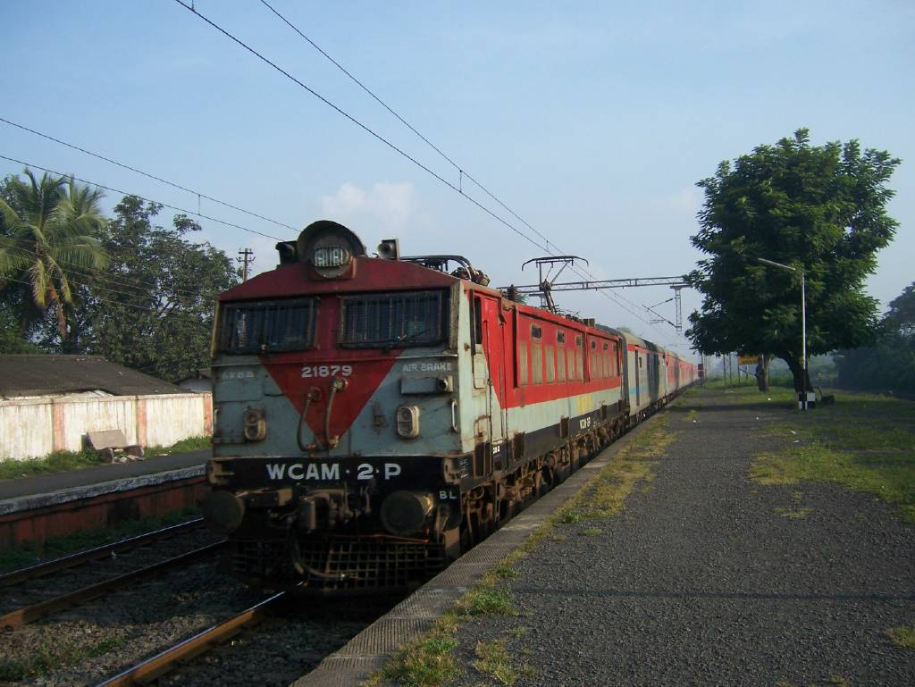 From 2148/A, new Nizamuddin - Pune AC Superfast . . . inaugural run, actually . . .